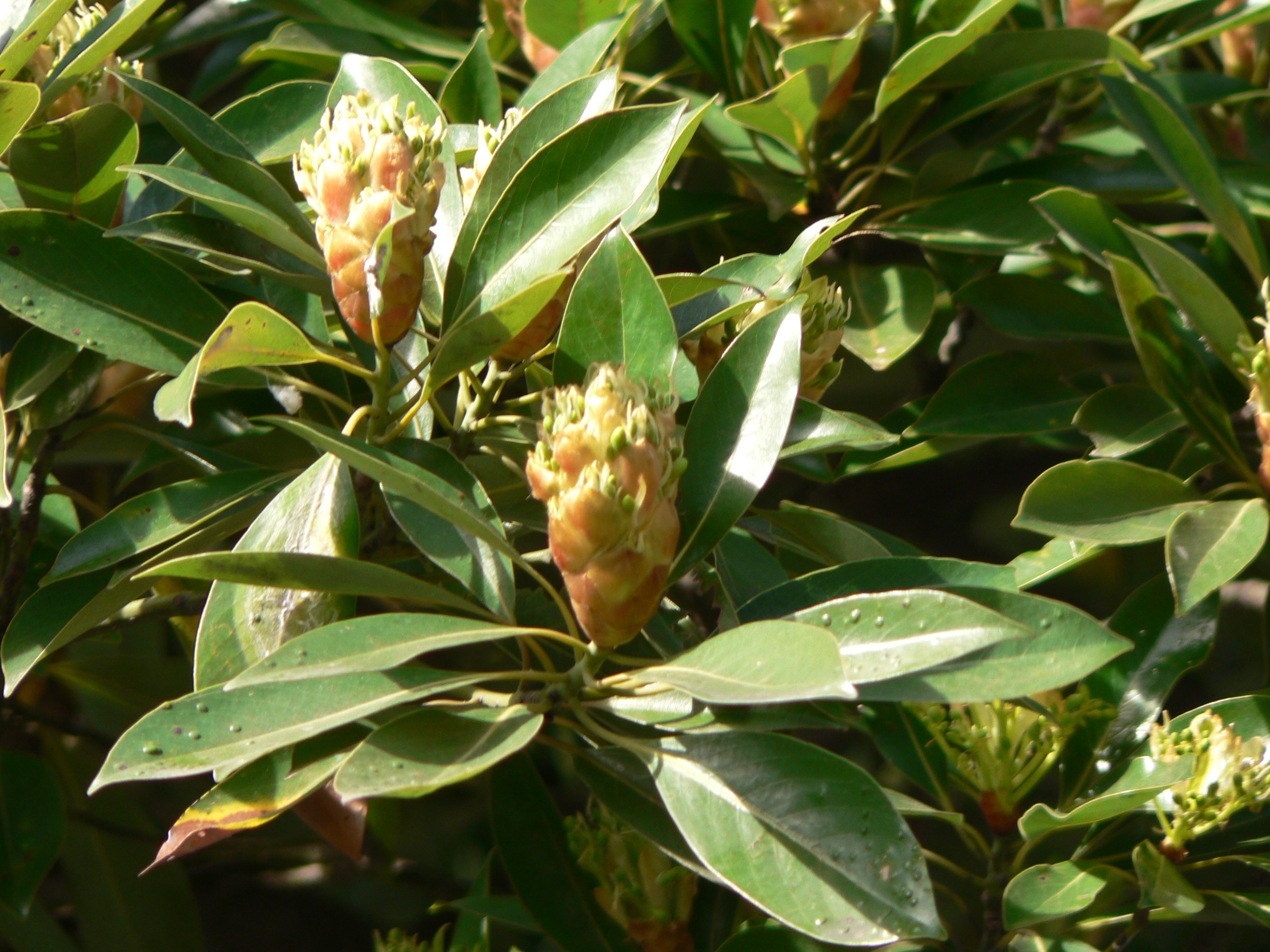 Species Persea thunbergii (Siebold & Zucc.) Kosterm. (Syn.: Machilus thunbergii Siebold & Zucc.) Genus Persea Familia Lauraceae Shot by myself on Apr. 22, 2006.